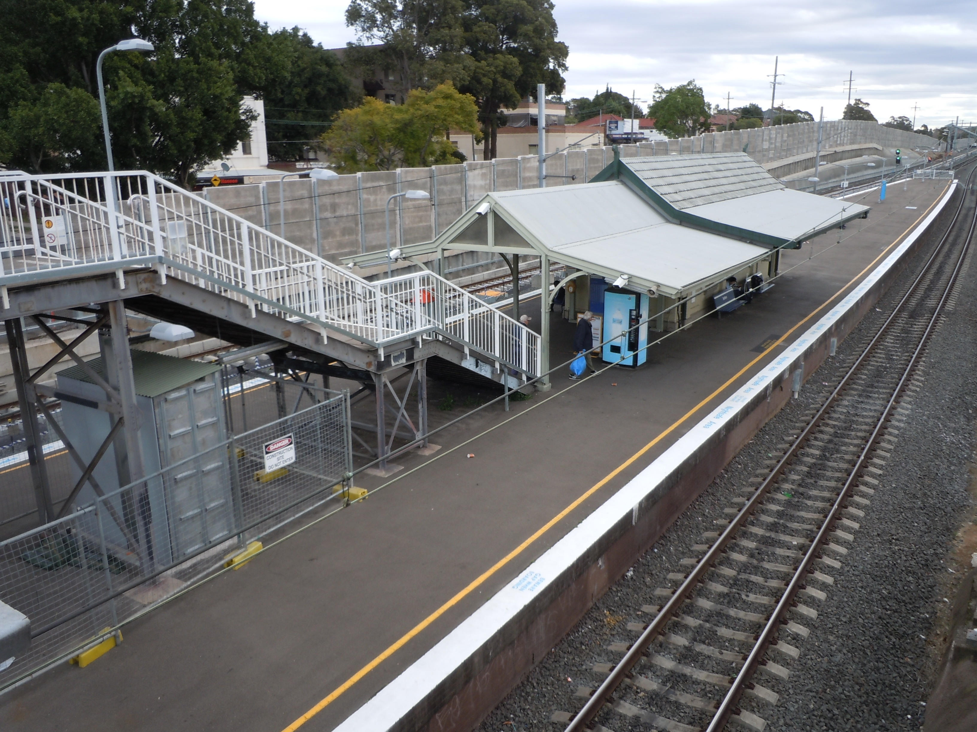 Sefton railway station in June 2011 with the section of the Southern Sydney Freight Line between Birrong and Leightonfield approaching completion.